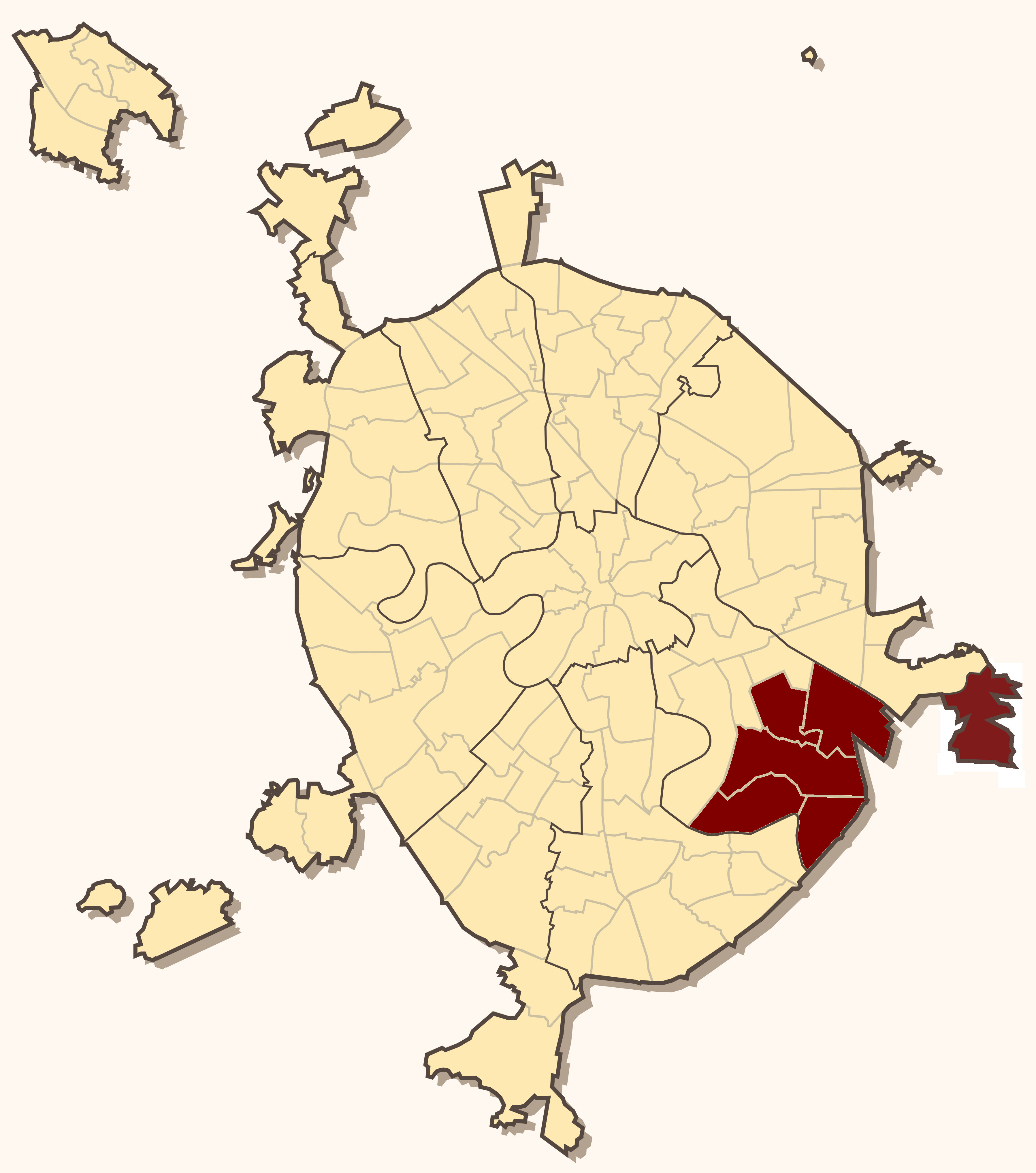 Map of Vlakhernskoe Blagochinie of Moscow